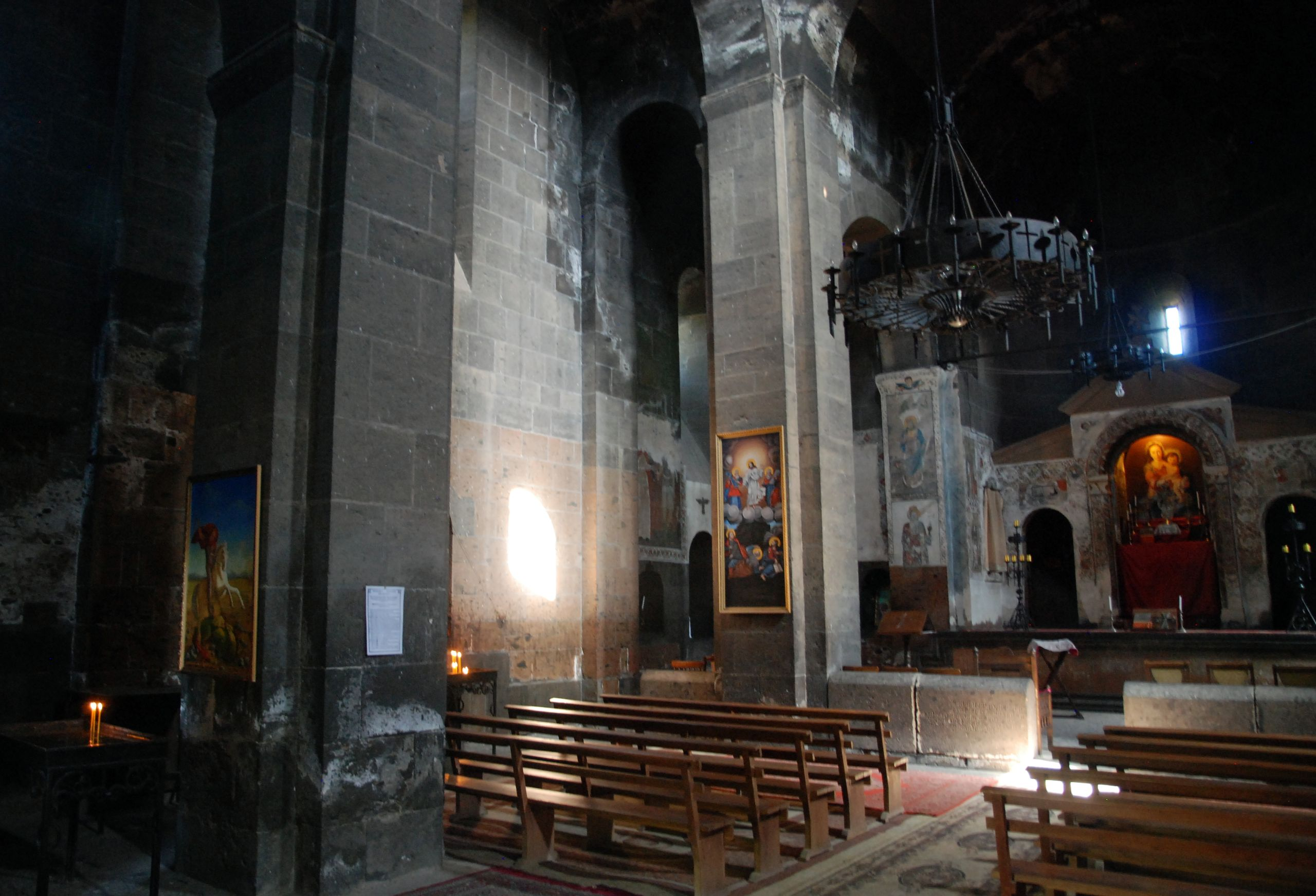 Mughni, near Ashtarak, church